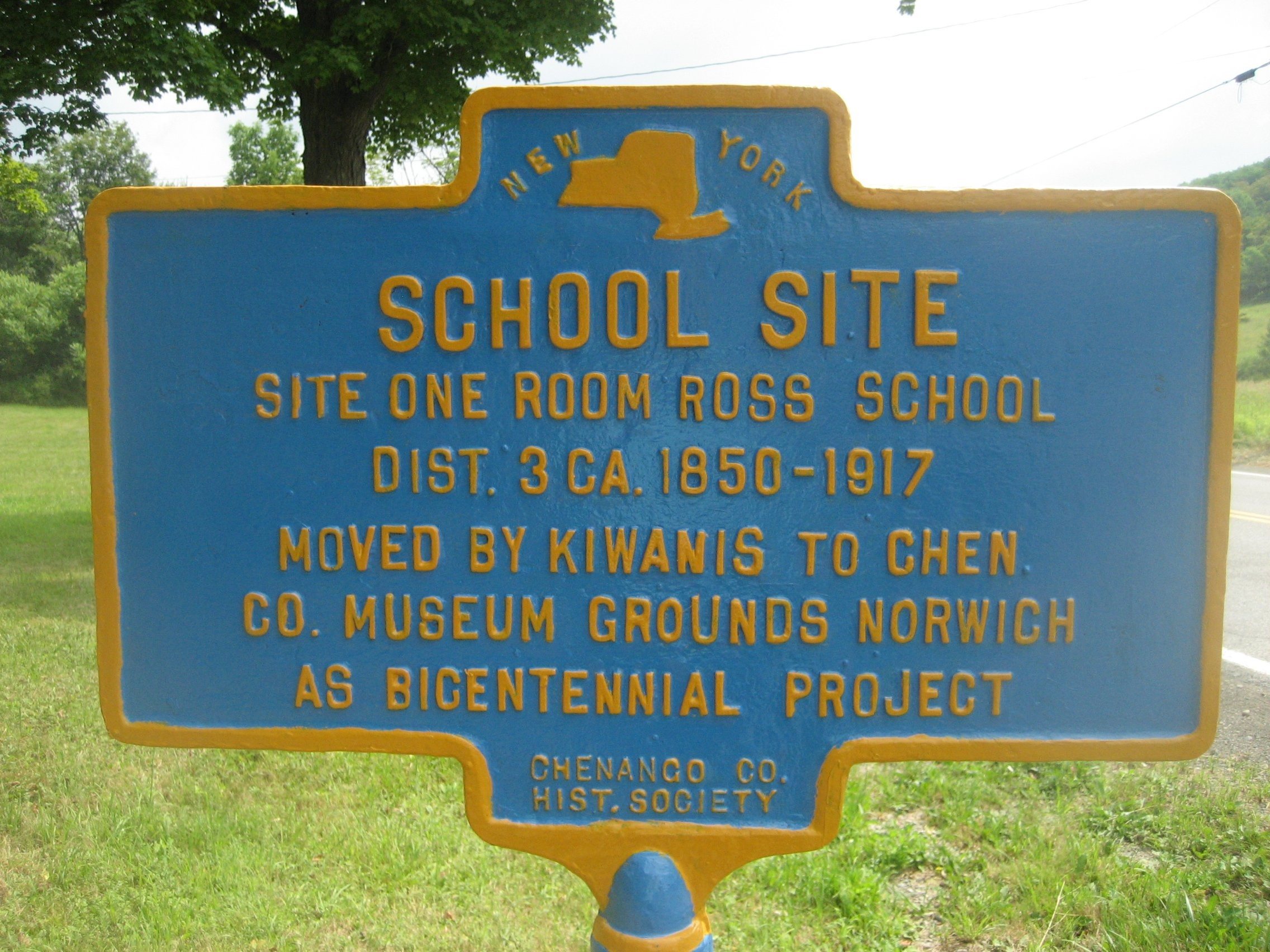 Historic marker on the original site of the one room Ross School, District 3 schoolhouse, in Preston, NY, 1850-1917. The school was moved to the Chenango County Historical Society grounds as a Bicentennial Project.